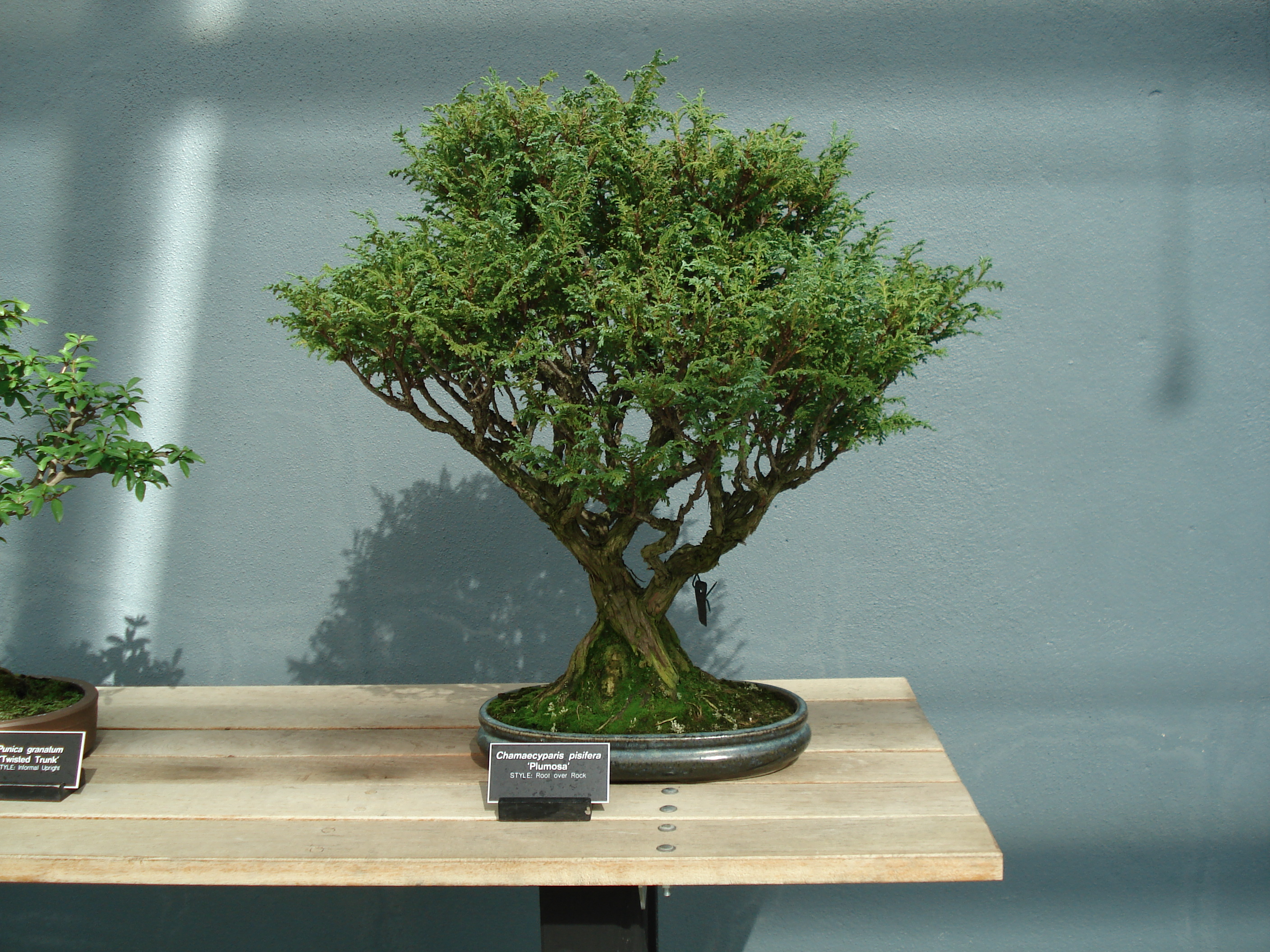 Chamaecyparis pisifera (Sawara Cypress) "Root Over Rock" style bonsai from Brooklyn Botanic Garden, in New York City. Copyright 2007 Jeffrey O. Gustafson, released to Commons under the GFDL and CC-BY-SA-3.0.